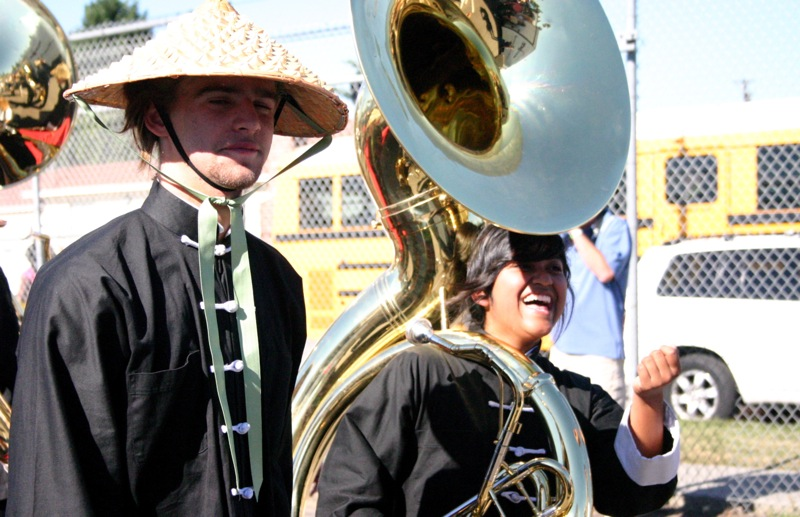 Members of the Newbury Park, California, high school marching band prepare to compete. The theme of the 2005 field show was Sakura -- thus the asian themed uniforms.